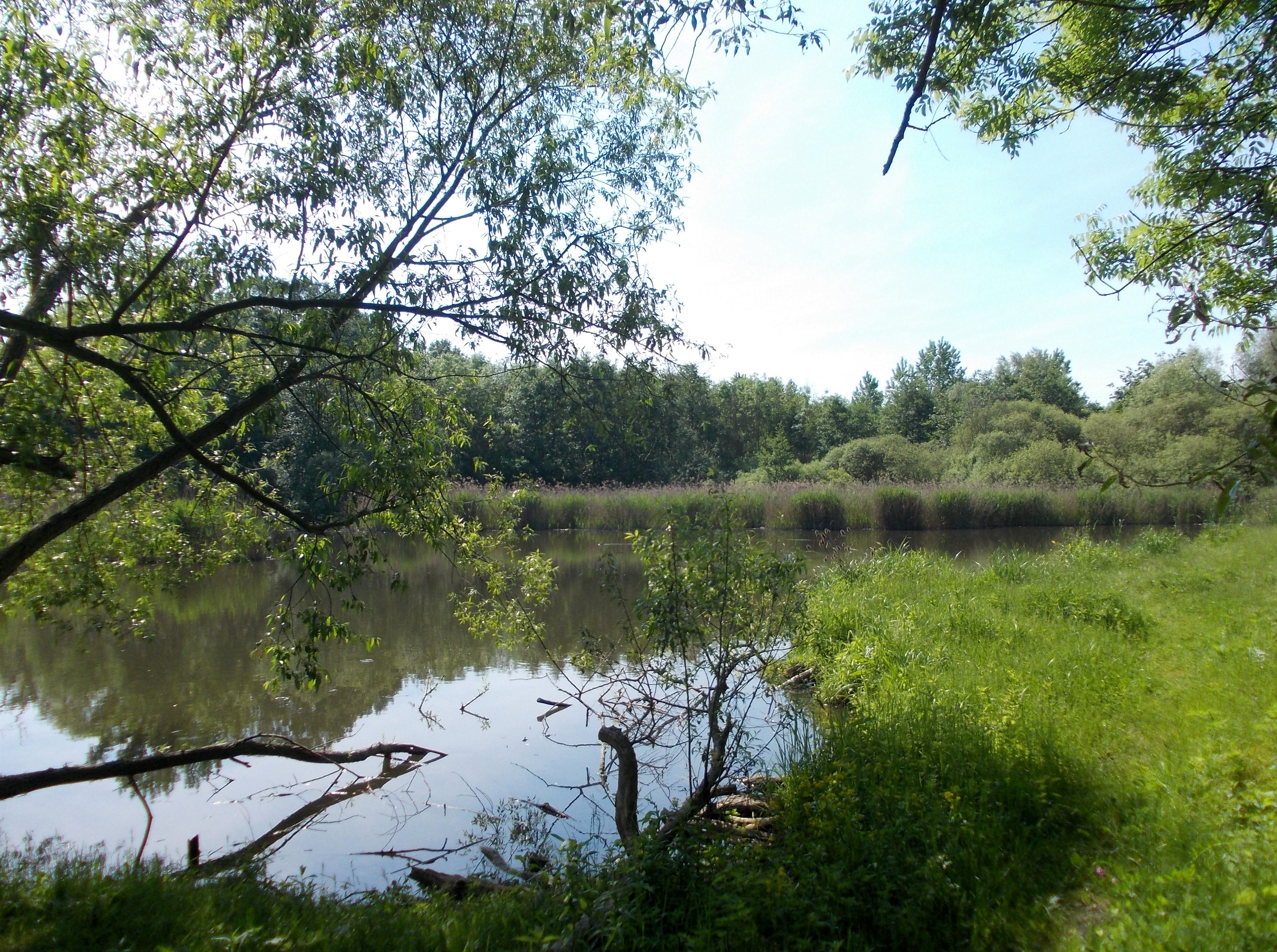 Lehmlache Lauer nature reserve (Leipzig, Saxony)